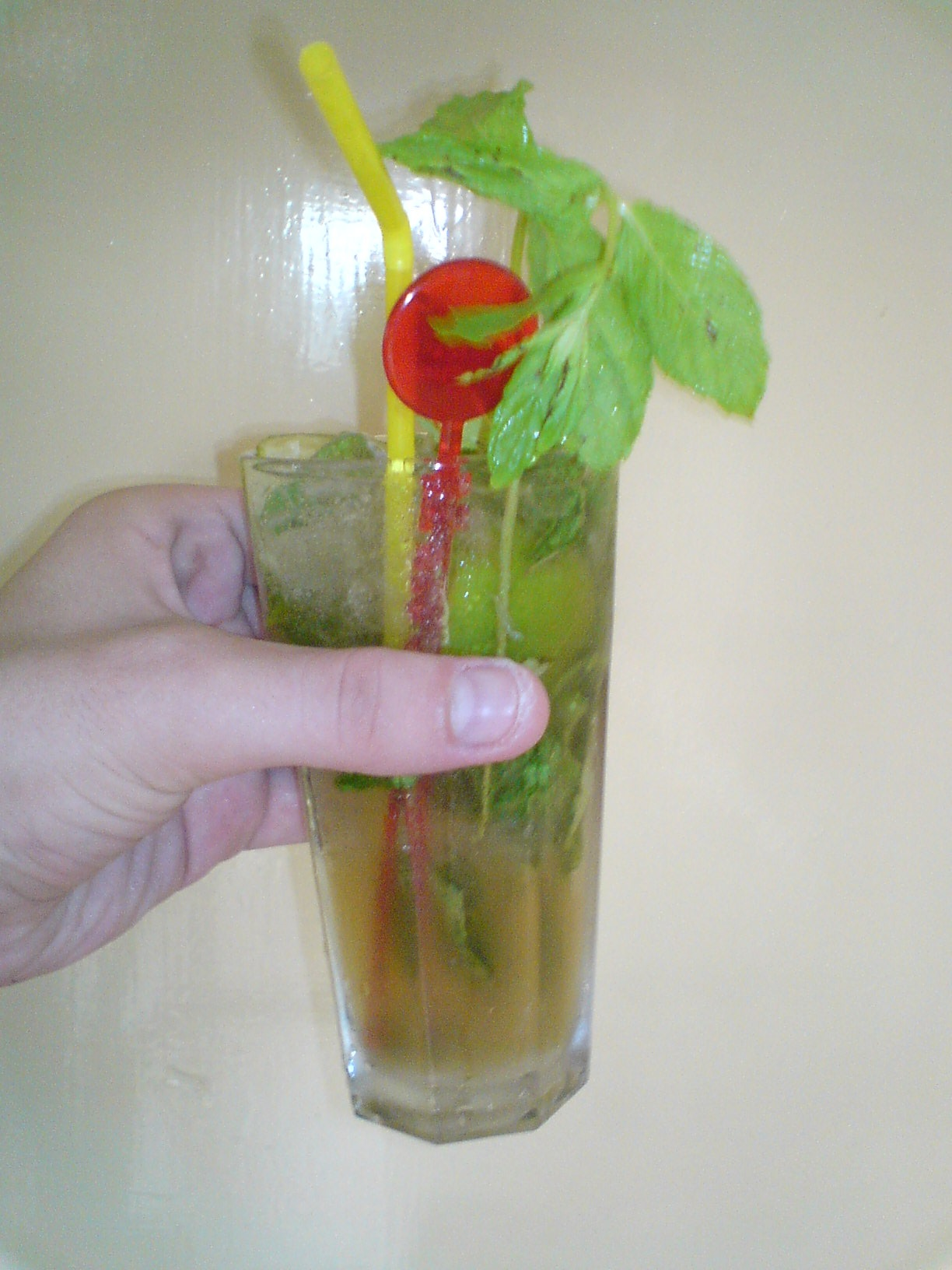 European Mojito with crushed ice and brown sugar